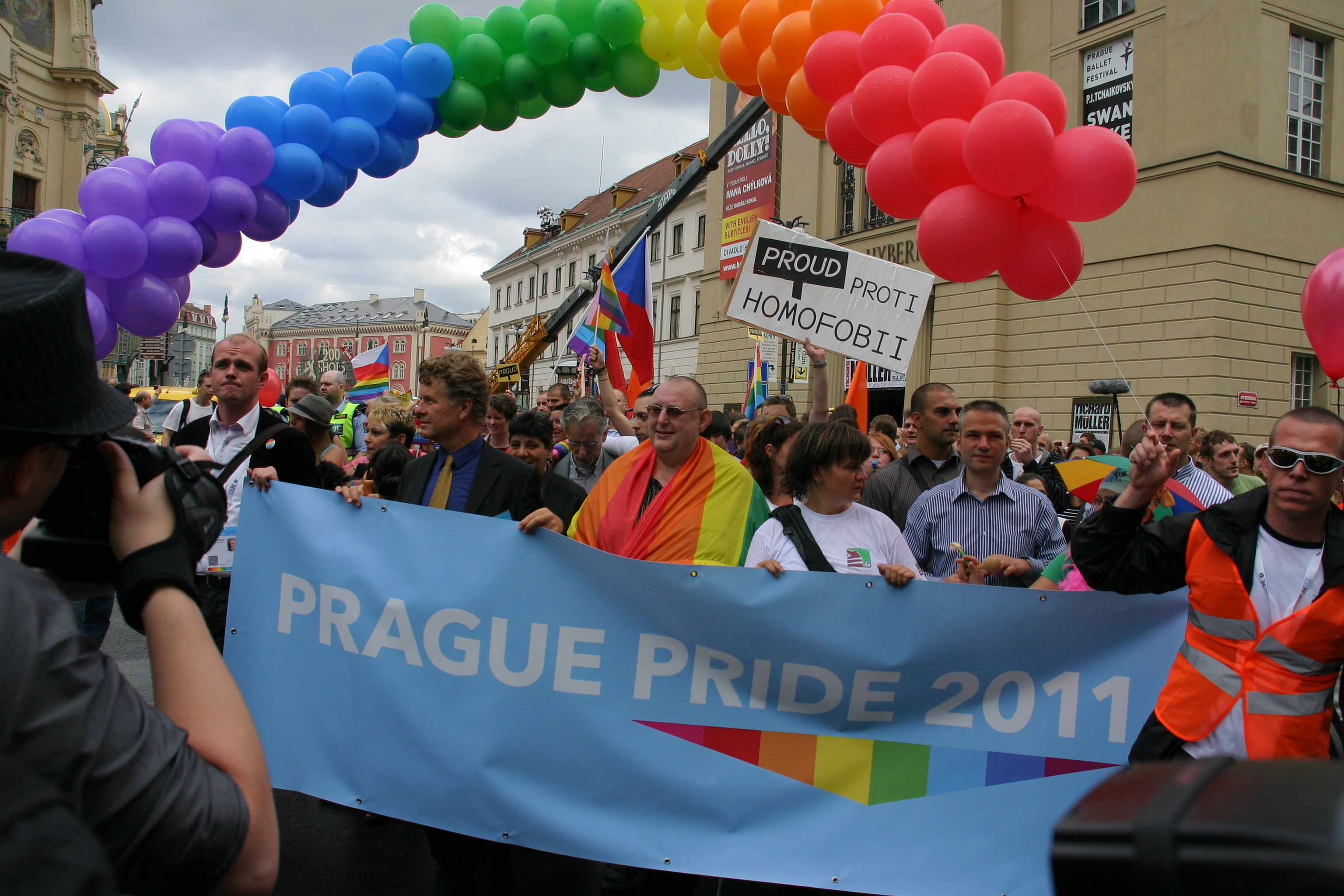 Prague Pride 2011, The parade are leading Czeslaw Walek, Jiří Hromada, Janis Sidovský and others